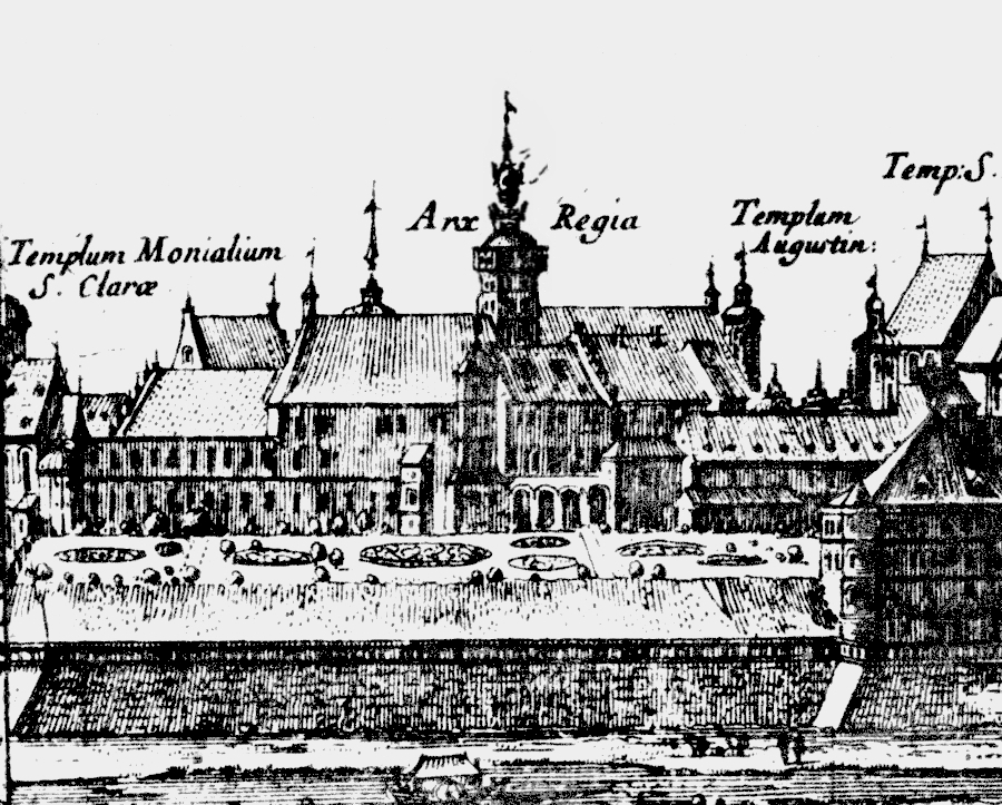 The Royal Castle in Warsaw (detail of the View of Warsaw). Prince-Bishop's palace situated on the northern bastion of the Warsaw's Royal Castle fortifications.